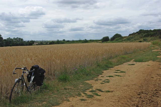 Thatching Straw? I was taken aback when saw barley as tall as this, a sight I have not seen in many years. Most farmers these days plant dwarf varieties as stubble burning is banned. I can only assume the straw will be used for thatching or corn dollies. To give some idea of the height the wheels of the venerable old Carlton Corsa (1973 vintage) are 27 inches in diameter.